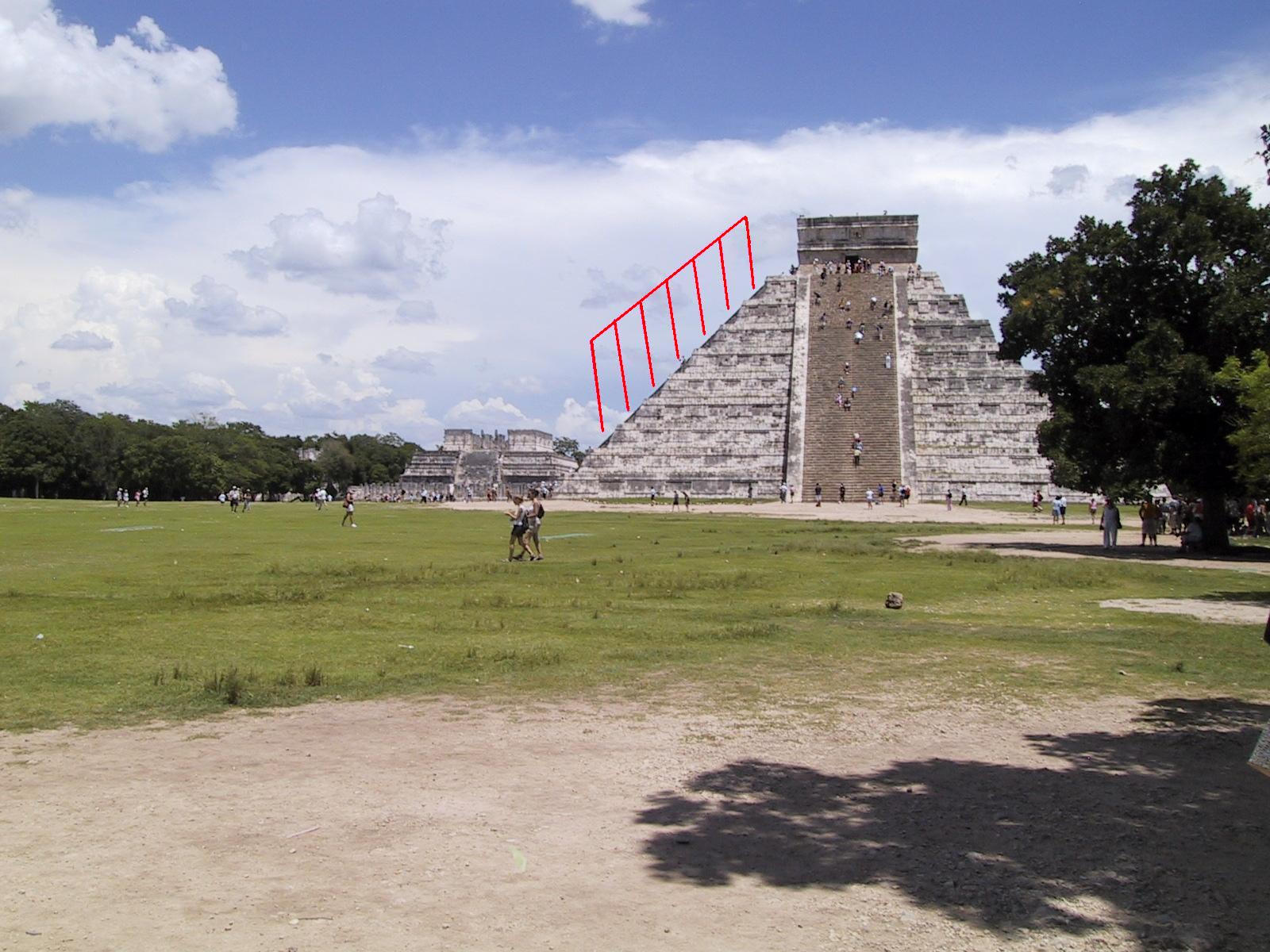 WNW Kukulcán pyramid side